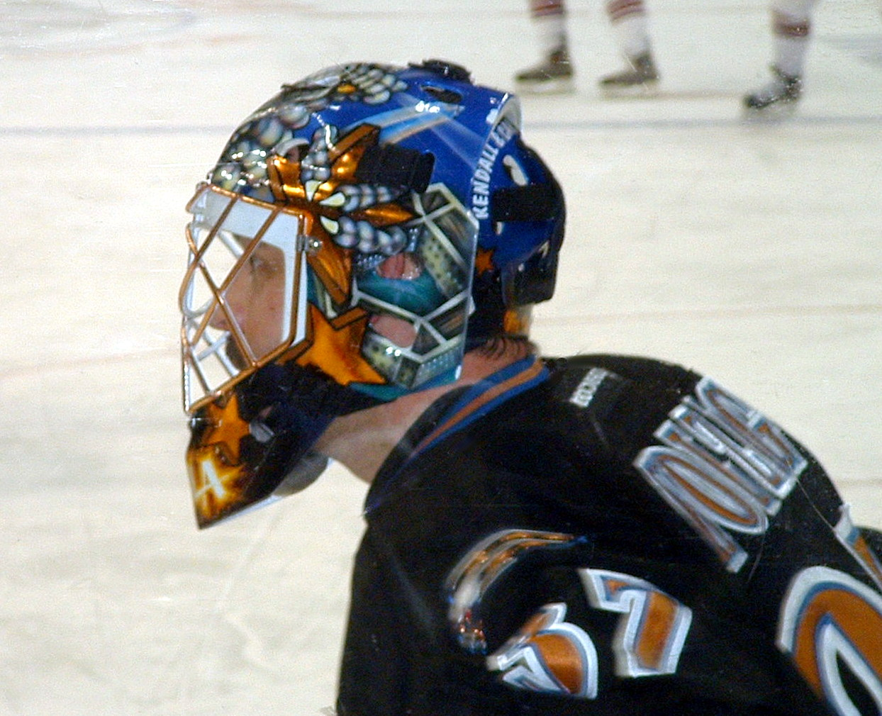 Olaf Kölzig, ice hockey goaltender of the Washington Capitals